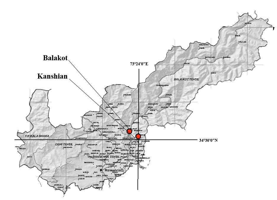 Kanshian in Mansehra District